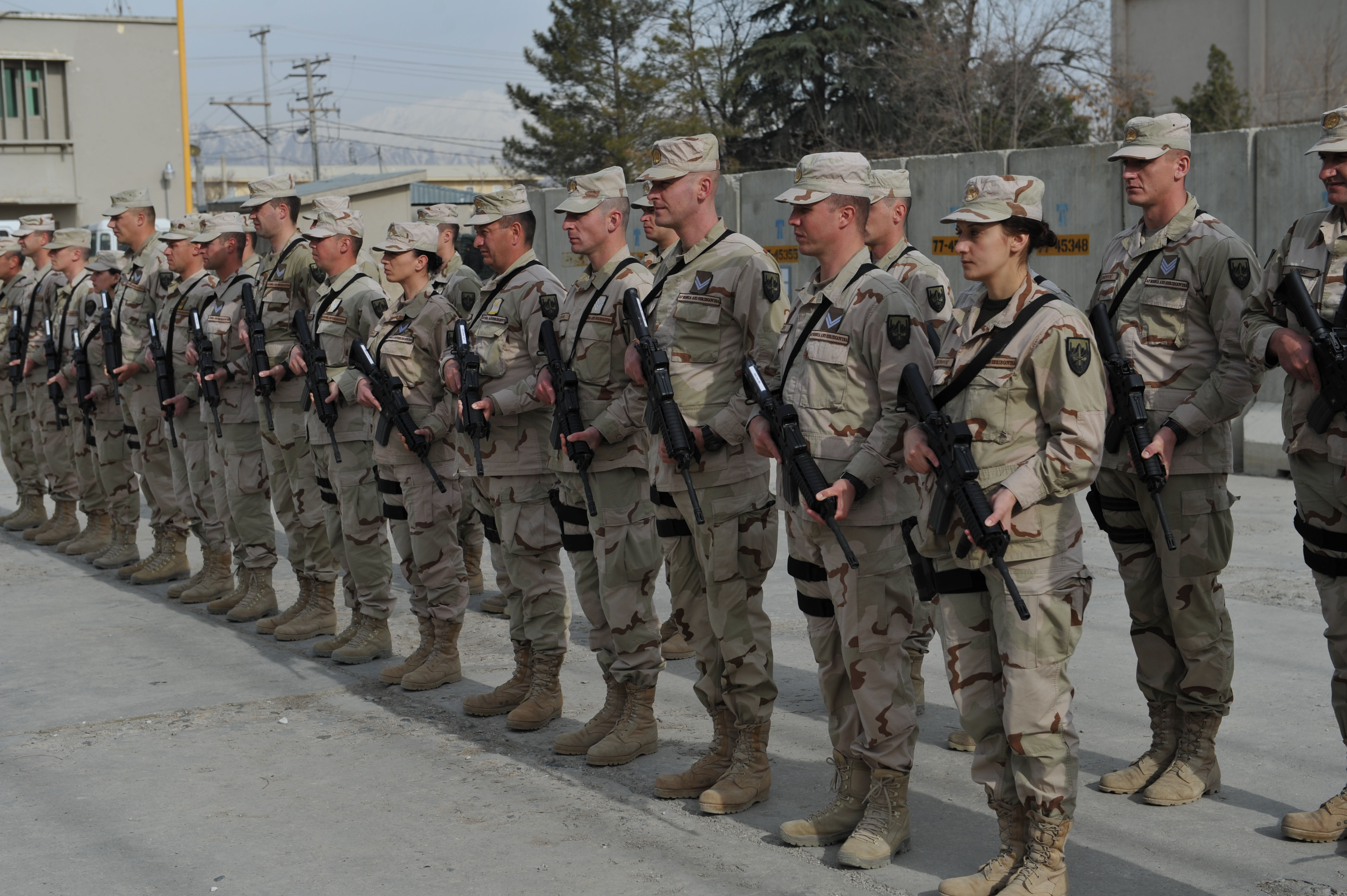 ISAF Bosnian troops line up, awaiting for the general march of the Lt. Anto Jeleč.